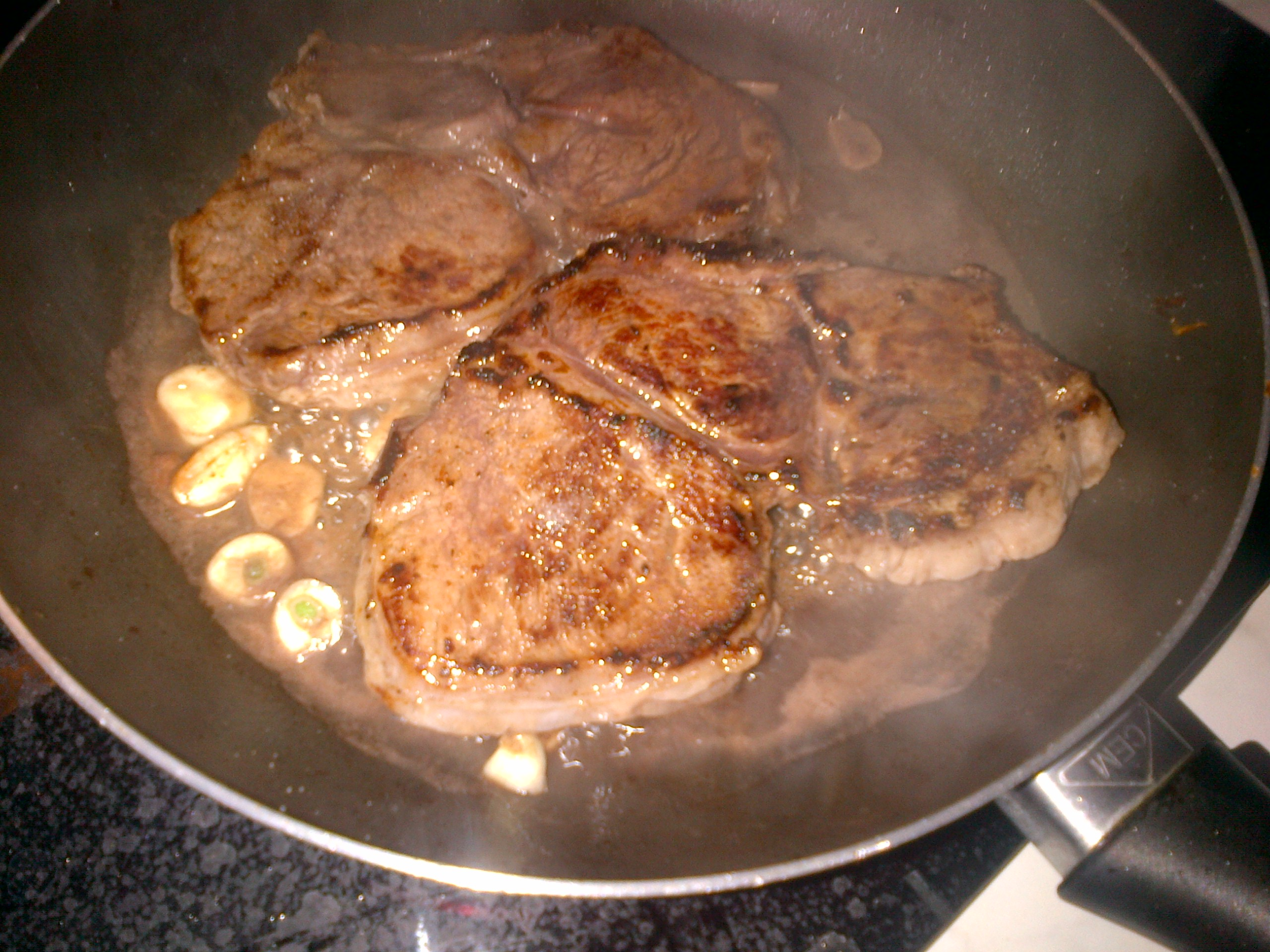 Cooking entrecote "a la plancha". The pan has very little oil, the liquids are juices of the meat and the red vine used for marinating it.